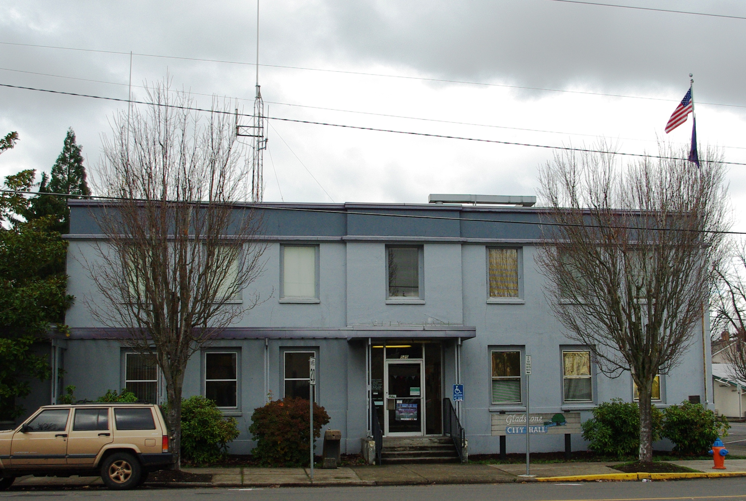 Gladstone, Oregon, USA, city hall on Portland Street.